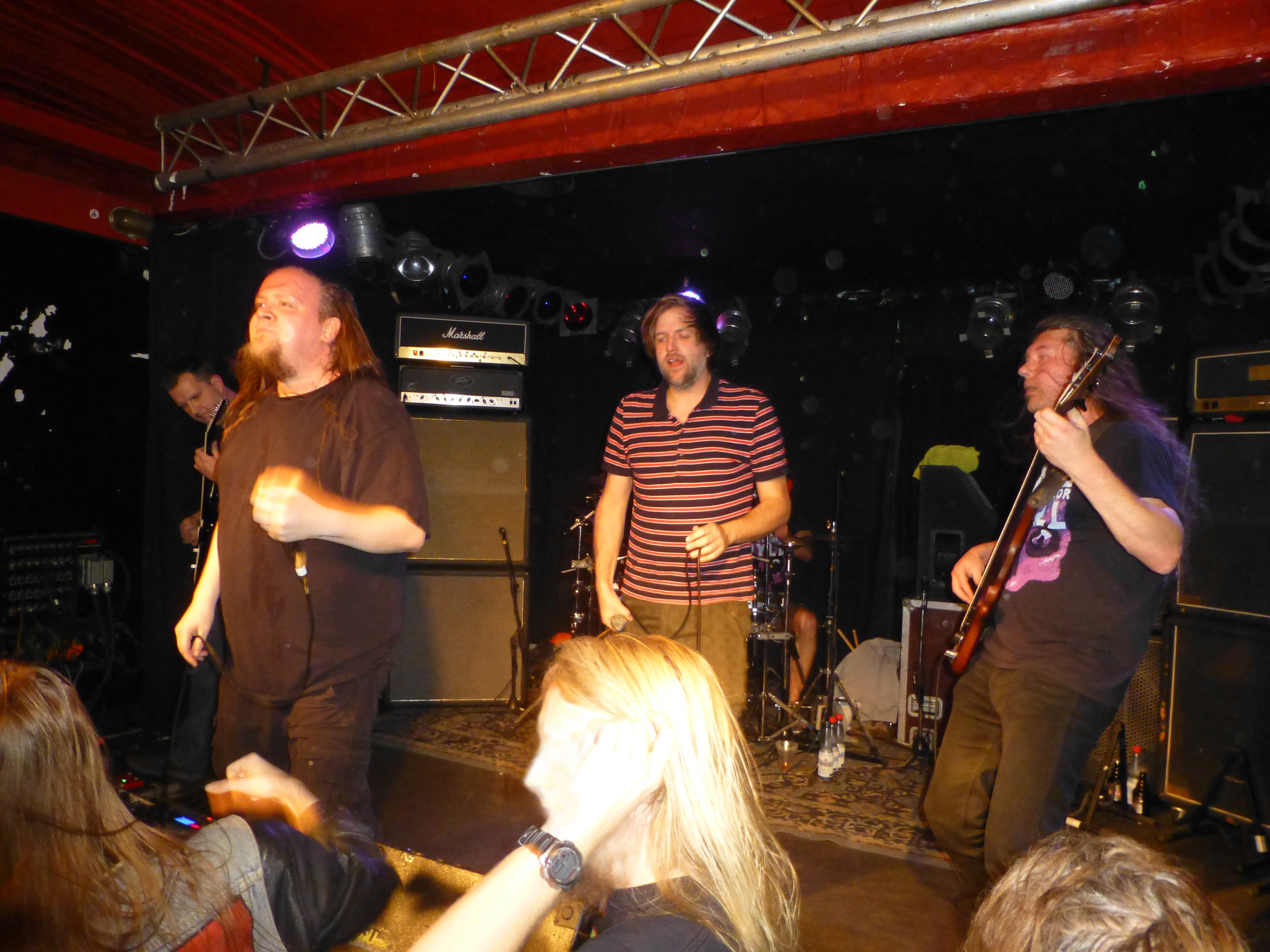 Japanische Kampfhörspiele, Markthalle, Hamburg, Germany, 28.11.2014.